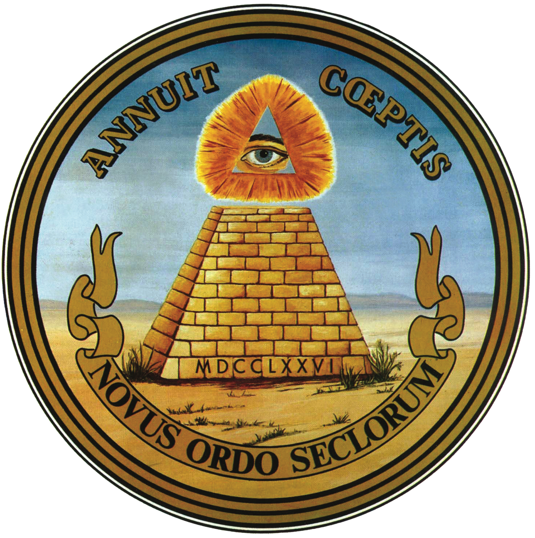 Official rendering of the reverse side of the Great Seal of the United States.